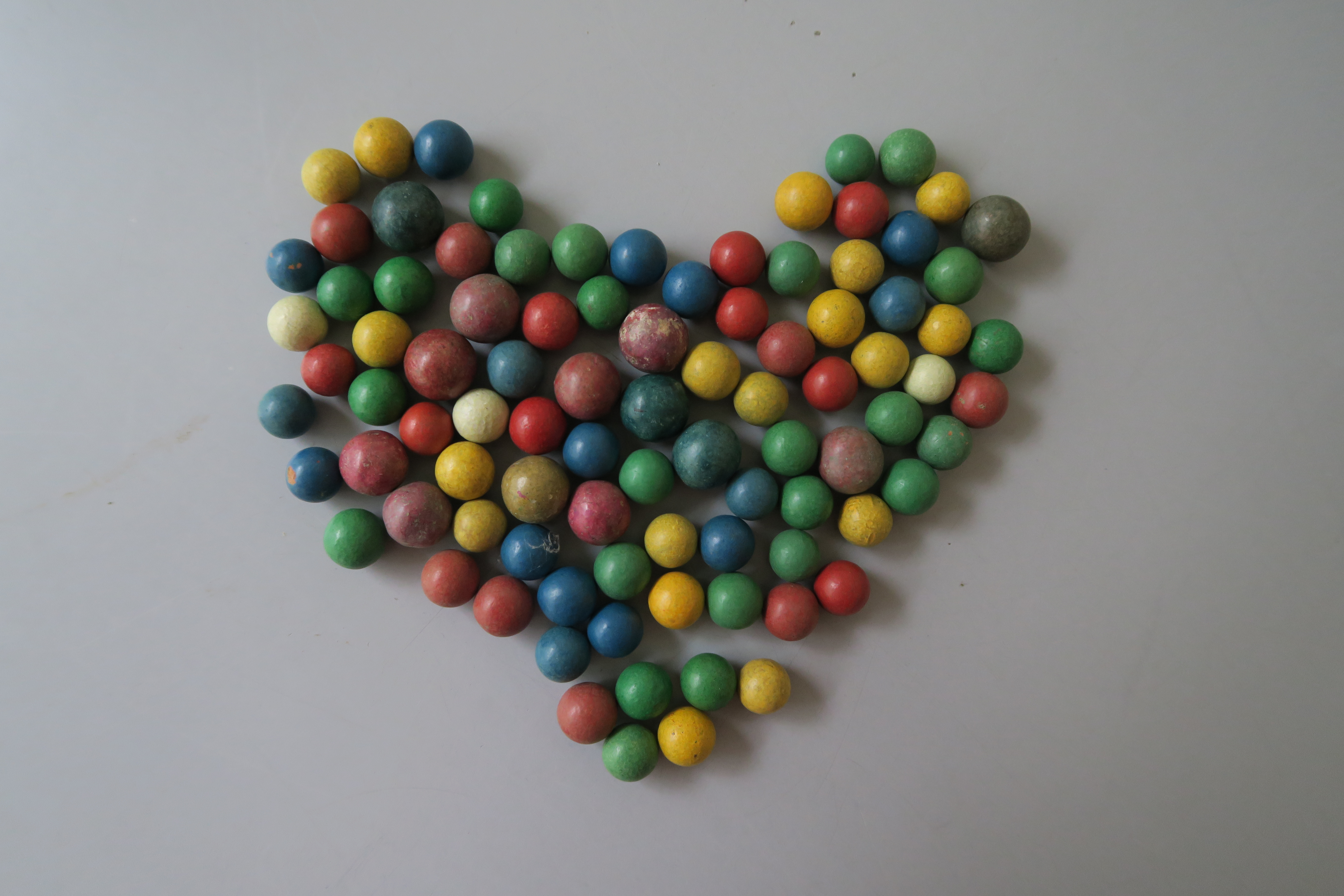 Ceramic Marbles